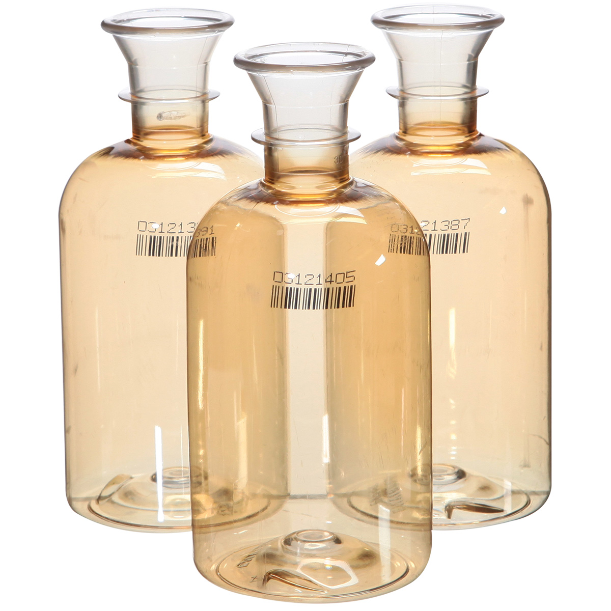 The only disposable BOD bottle available from Environmental Express